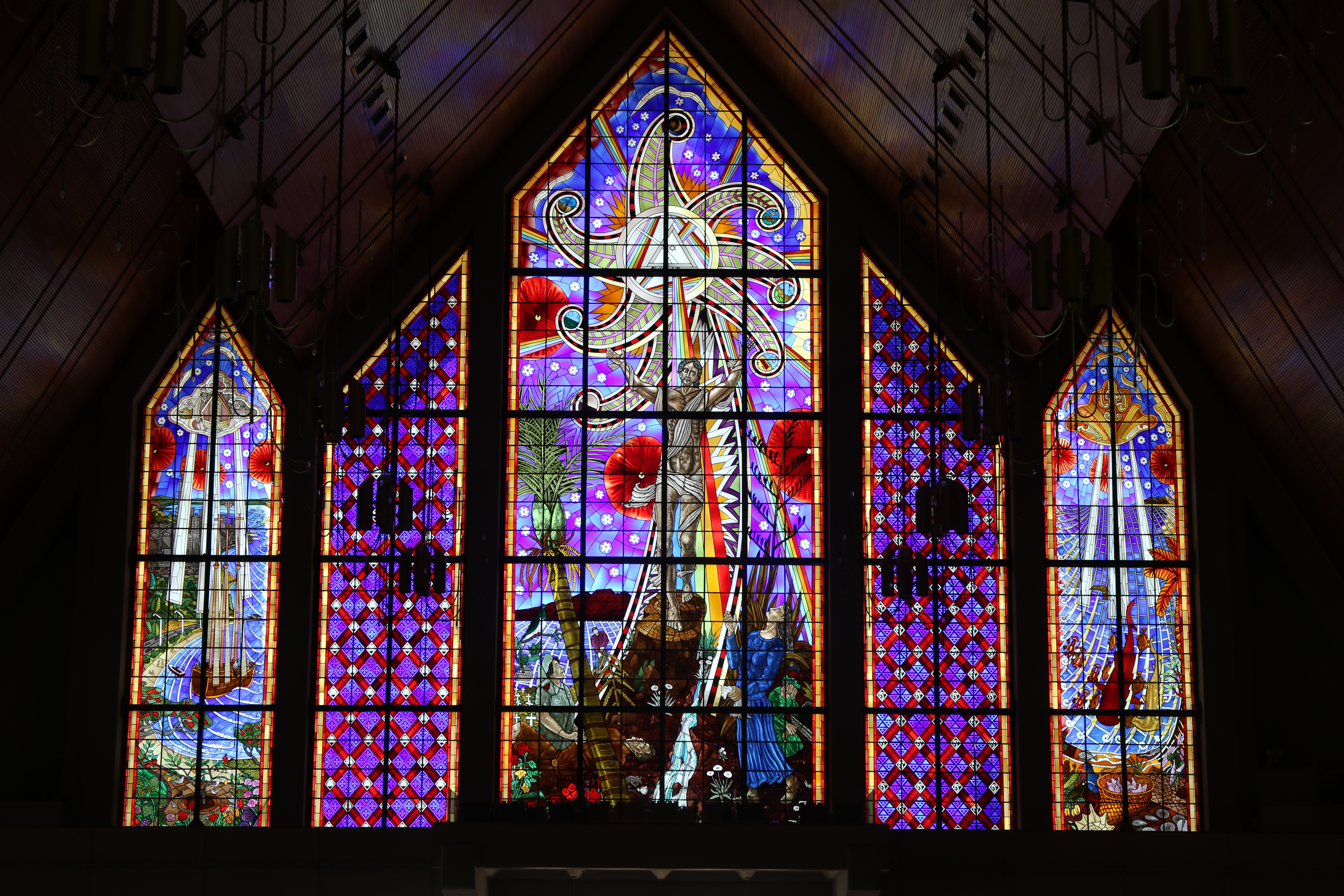 West window by Shane Cotton